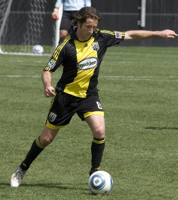 Duncan Oughton of the Columbus Crew. I shot this photo on April 2nd at Columbus Crew stadium during a scrimmage against Michigan State University.